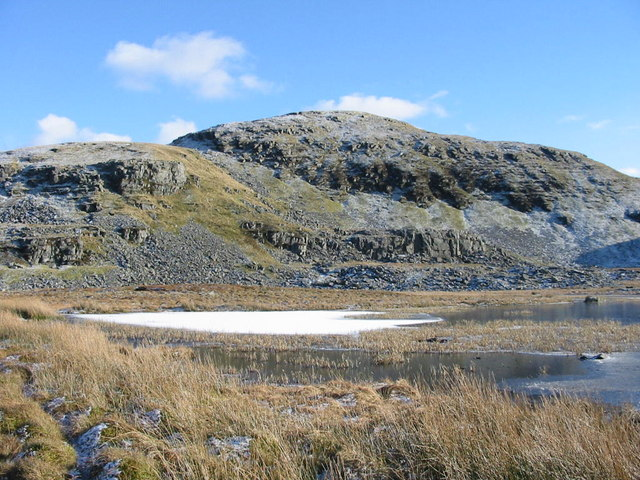 Llyn Dywarchen, 4 km from Eisingrug, Gwynedd, Great Britain. The horseshoe shaped lake to the north west of Moel Ysgyfarnogod.